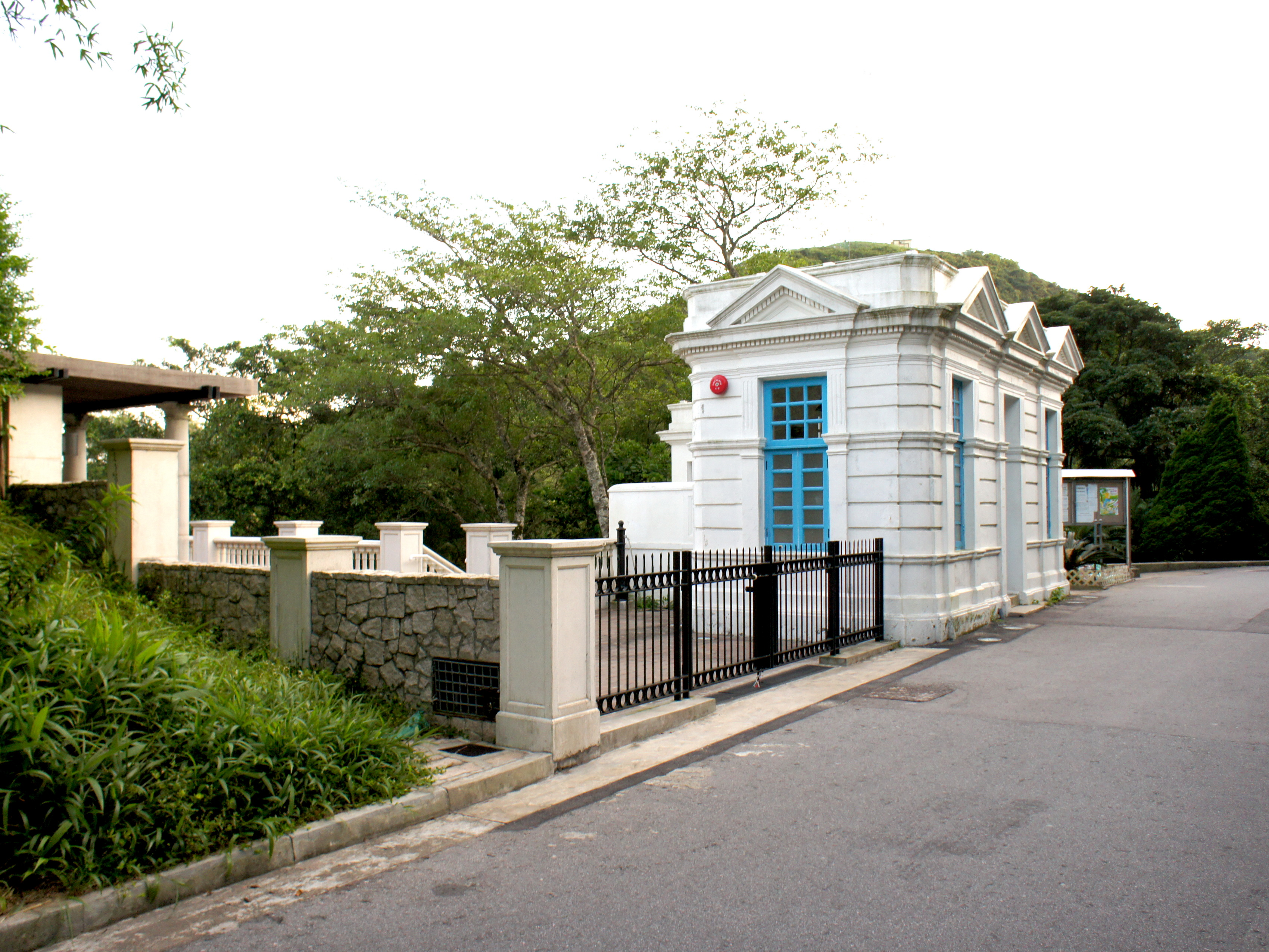 The Mountain Lodge Guard House, Victoria Peak, Hong Kong.